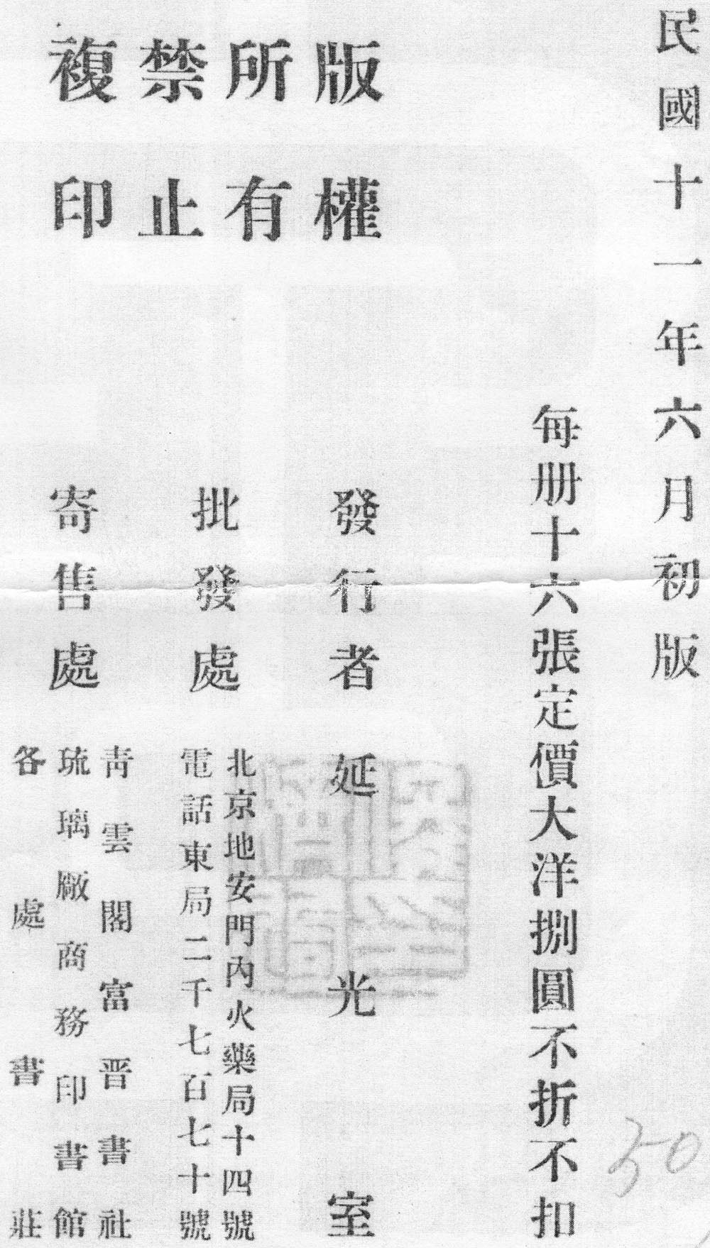 Ke Luo Ban copyright page sample from Yan Guang Shi